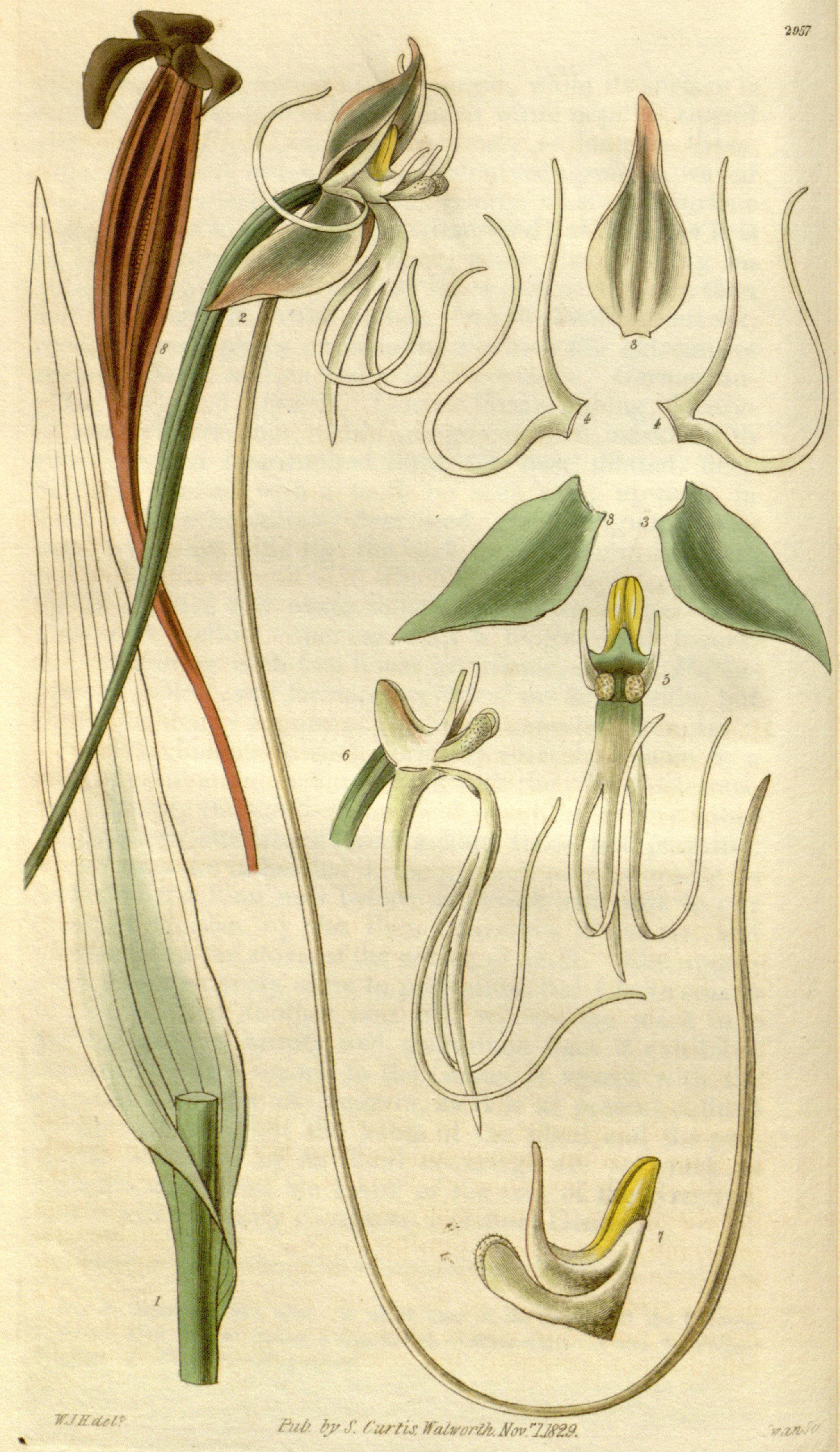 Illustration of Habenaria longicauda